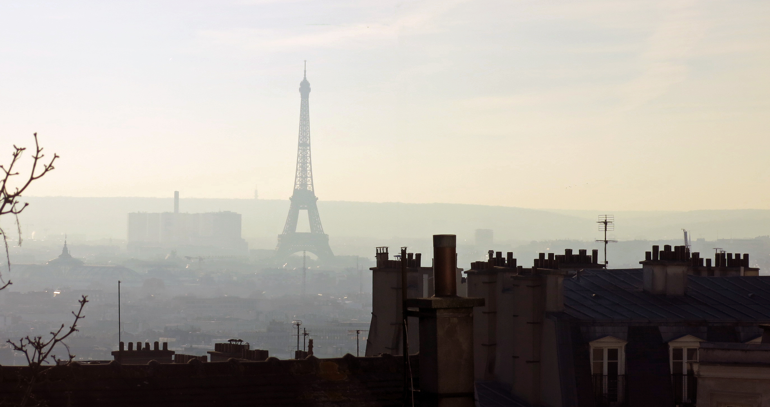 Pollution event in Paris 8th december 2016 - Eiffel tower seen from the hill of Montmartre (Paris, France).